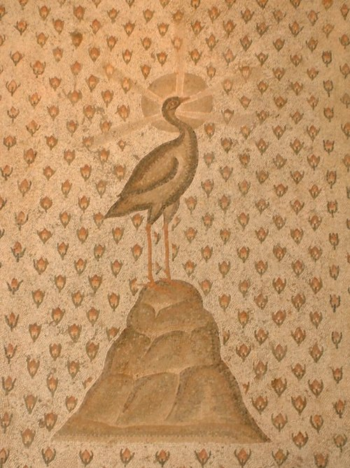 Floor mosaic: roses and phoenix. Marble and limestone, late 3rd century CE. From Daphne, suburb of Antioch.